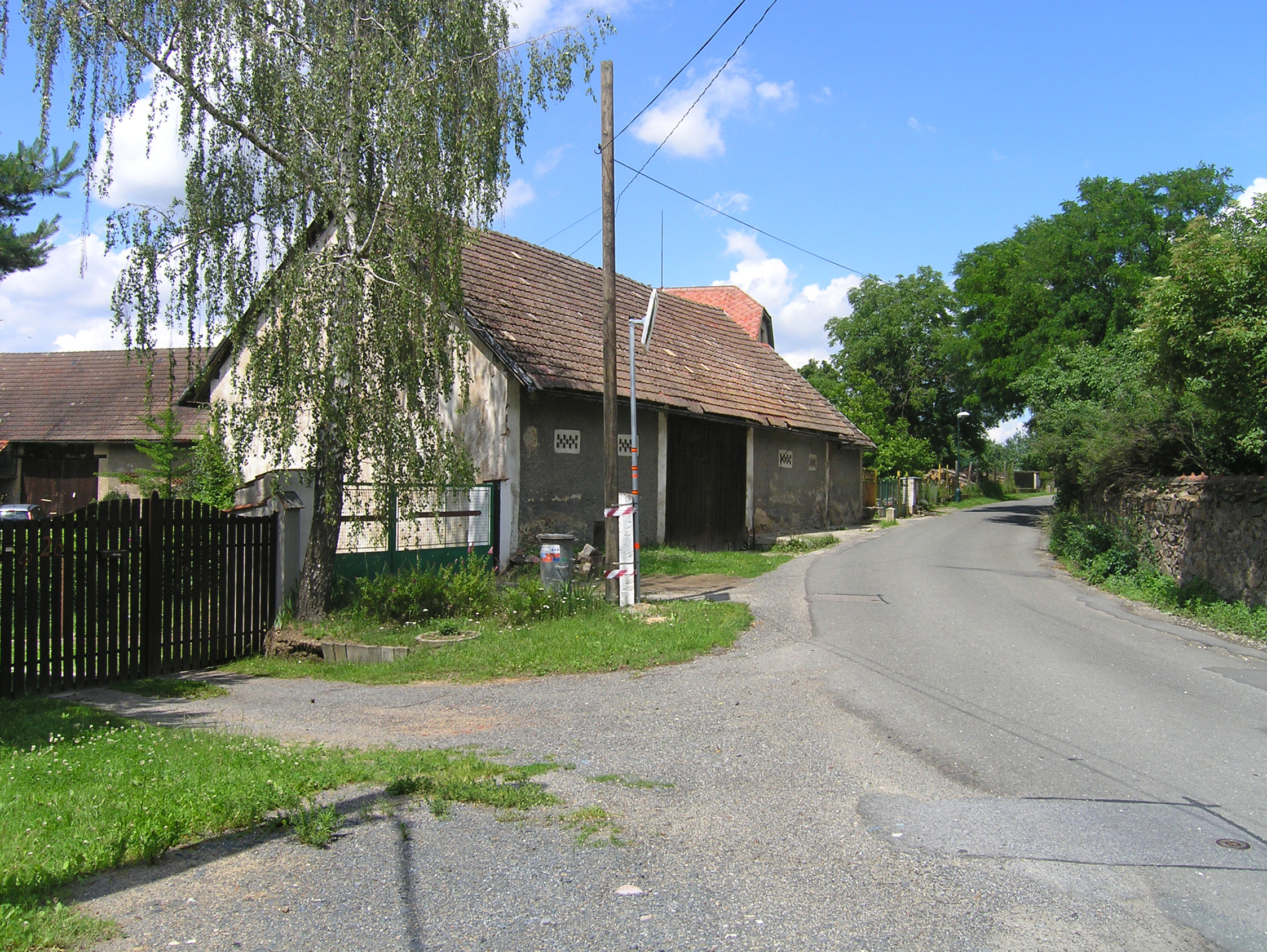 North part of Čenětice, part of Křížkový Újezdec municipality, Czech Republic